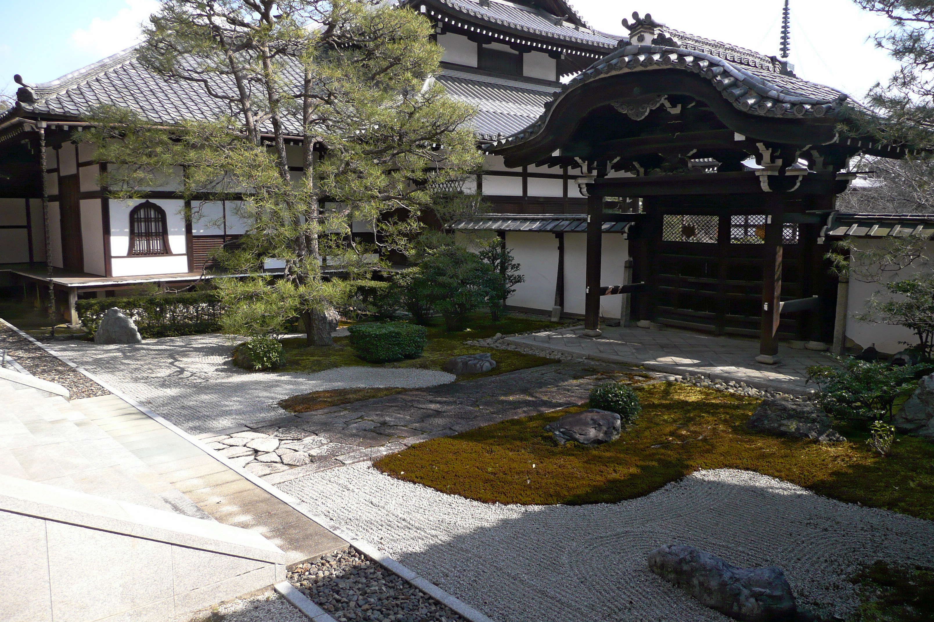 Honpoji in Kyoto, Kyoto prefecture, Japan